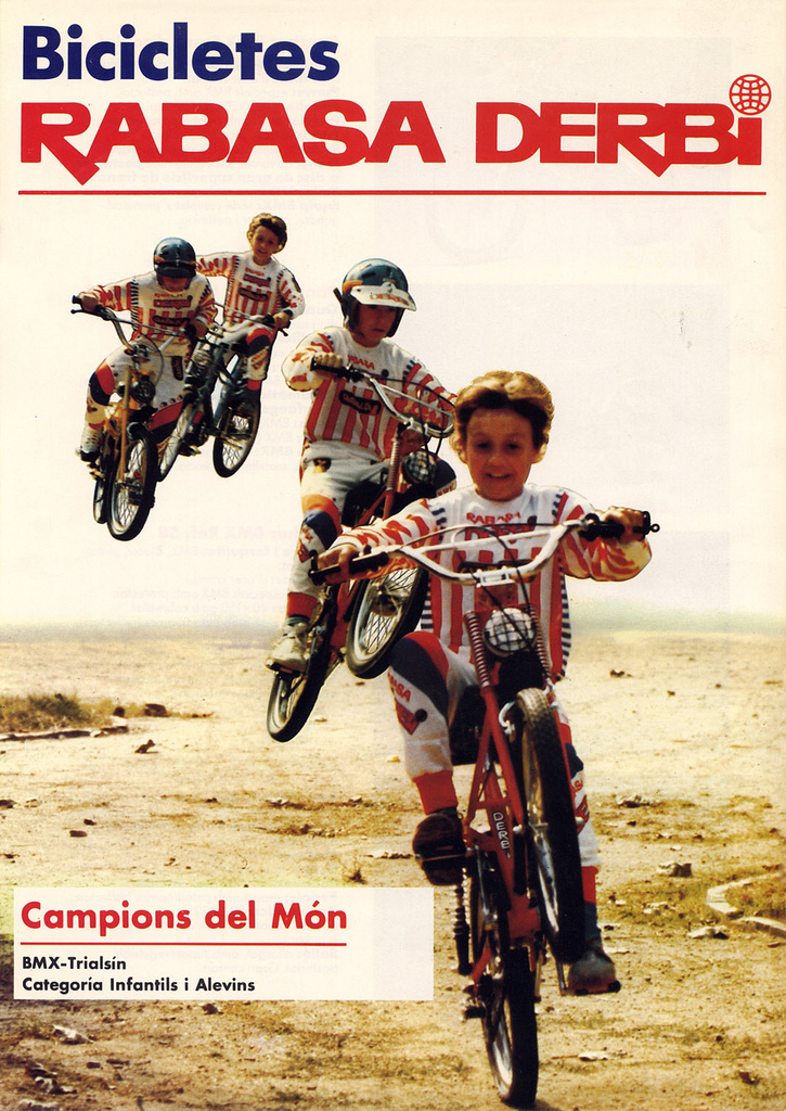 Rabasa Panther Cross Catalogue Cover.